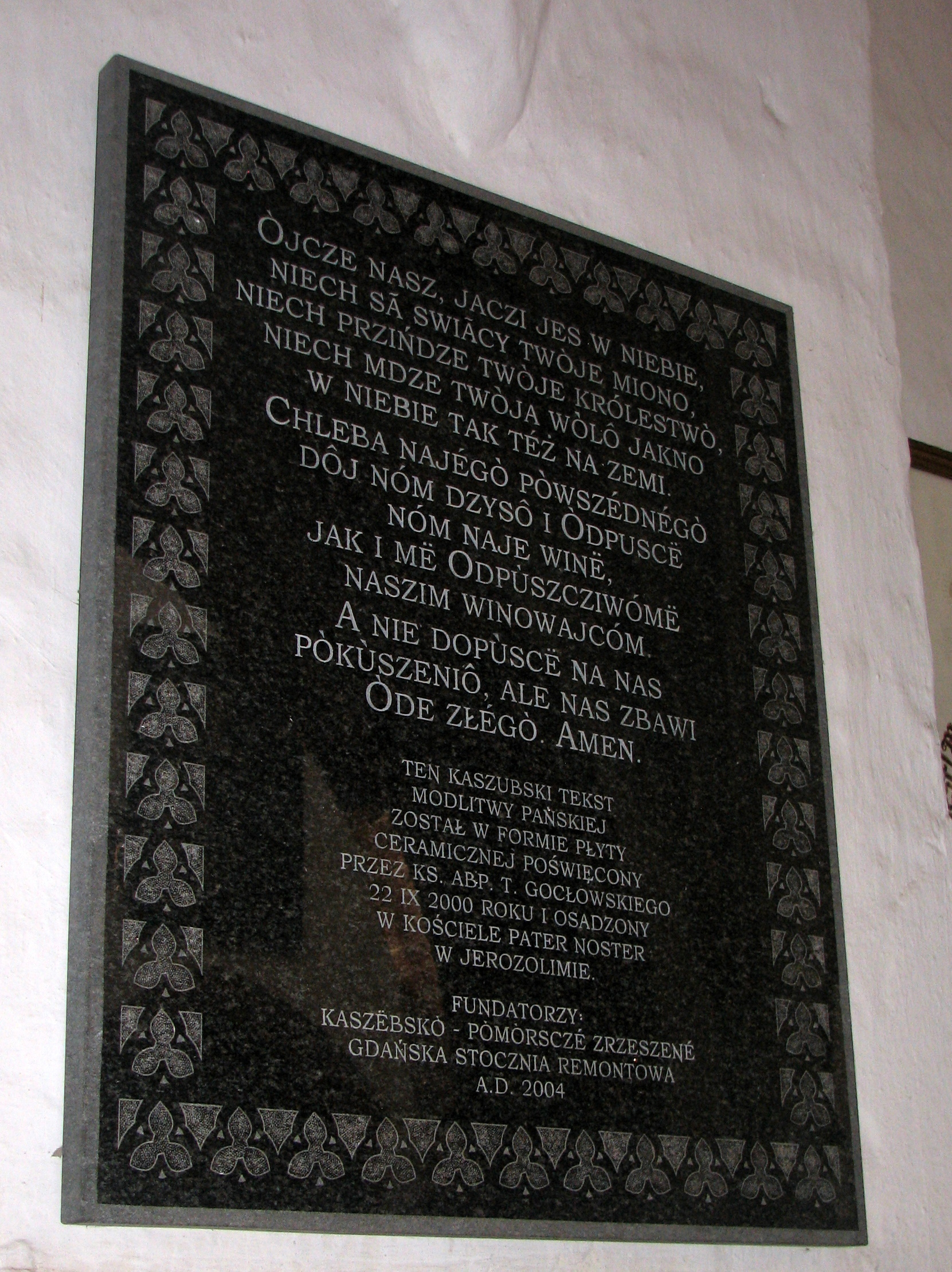 Plaque with "Lord's Prayer" in Kashubian language in Oliva Cathedral in Gdańsk.